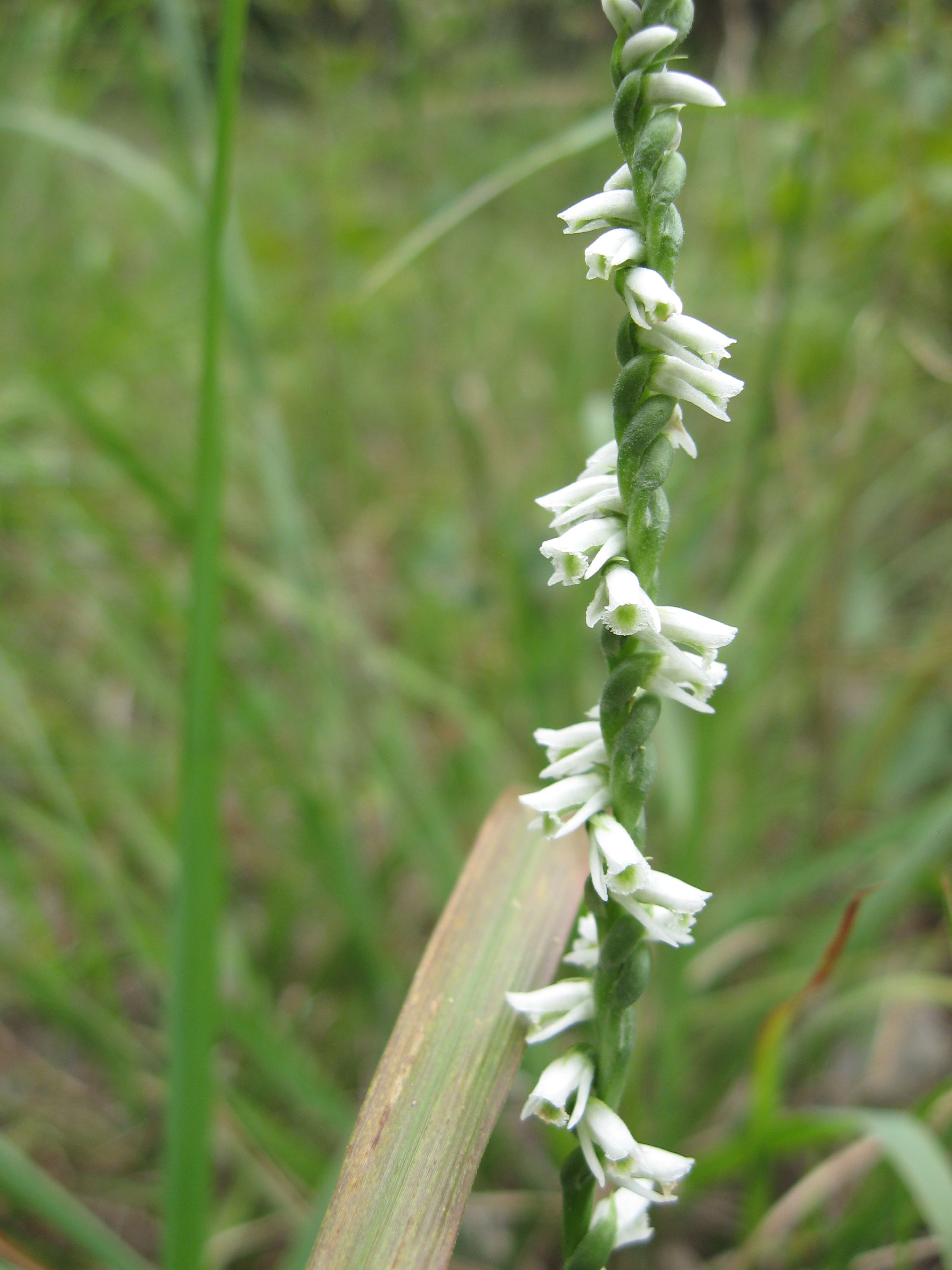 Spiranthes lacera, found in Logan County Glade State Nature Preserve, Logan County, Kentucky.